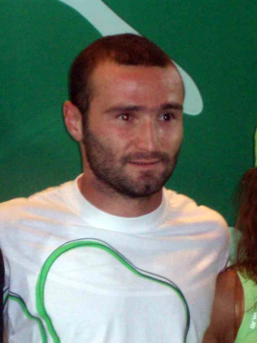 Dimitris Salpigidis from Sport Show 2007 in Ellinikon International Airport